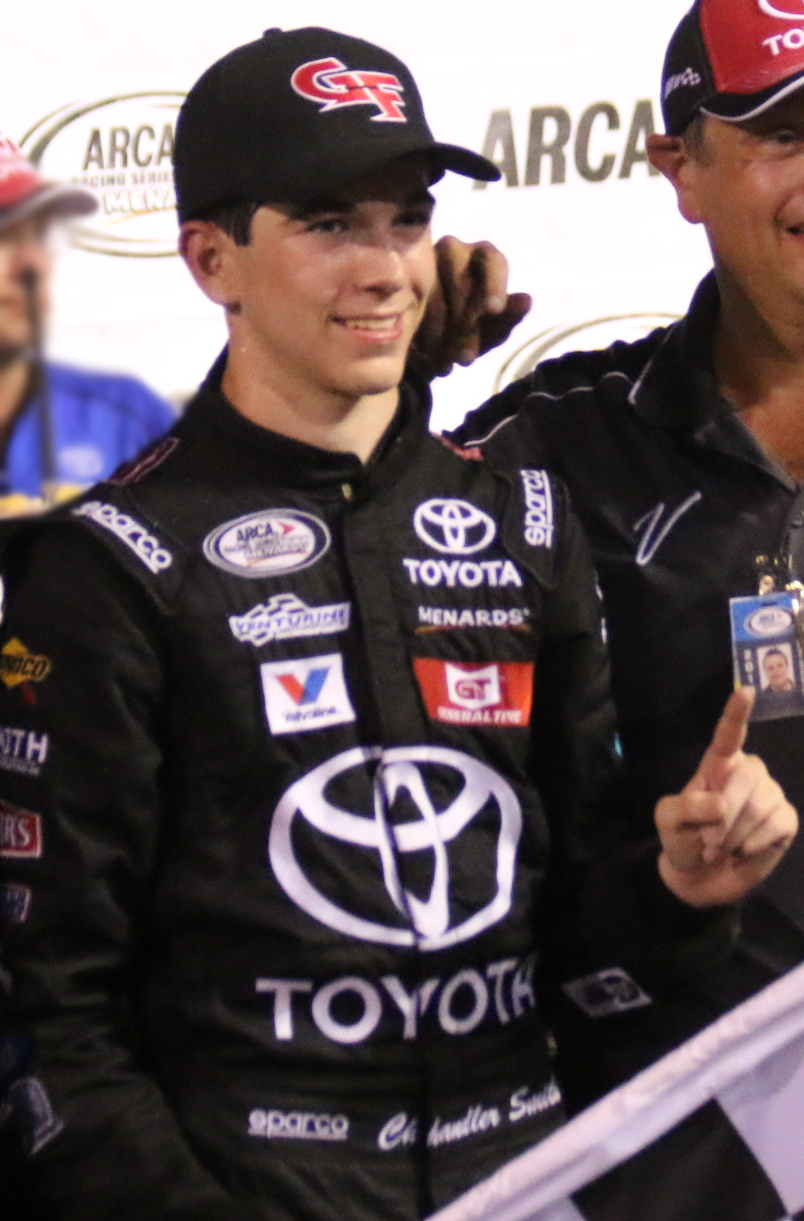 ARCA driver Chandler Smith posing for a photographs in victory lane after winning at Madison International Speedway.